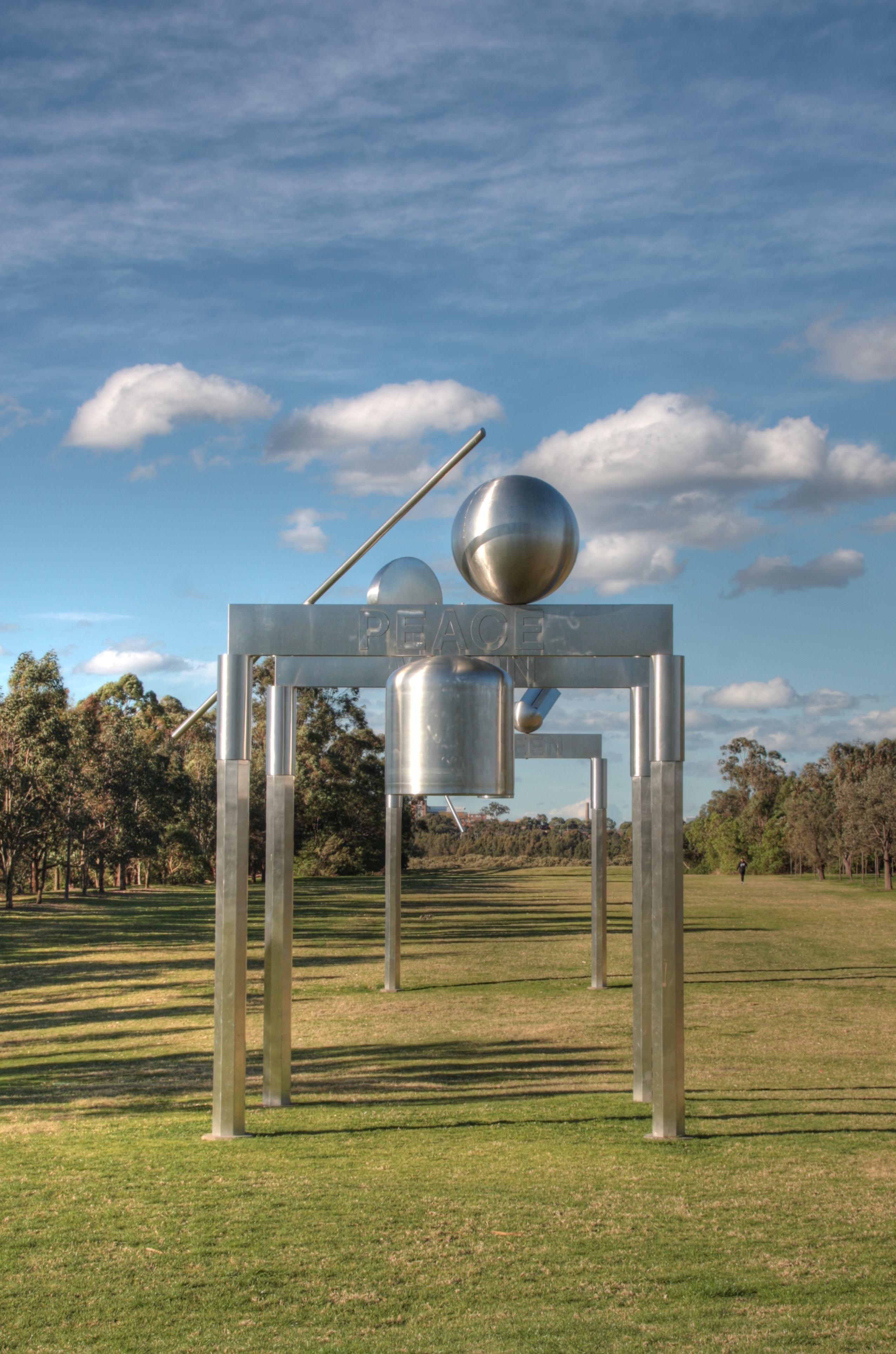 Peace Monument within the Bicentennial Park at Sydney Olympic Park precinct